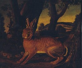 Landscape with hare